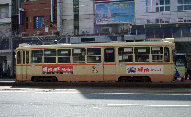 The tram in Kagoshima city, Type 500(No.510).